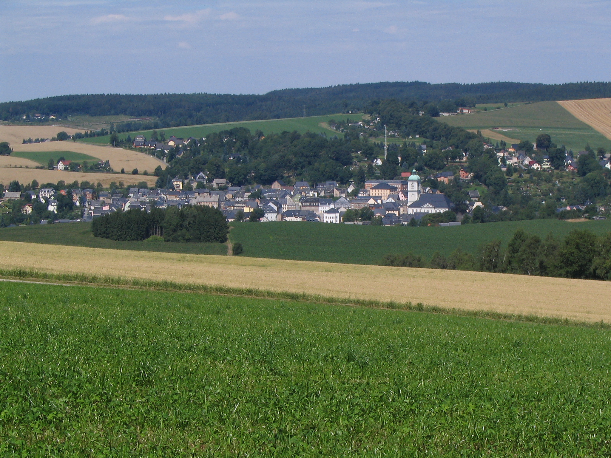 View on Loessnitz (Ore Mountains)